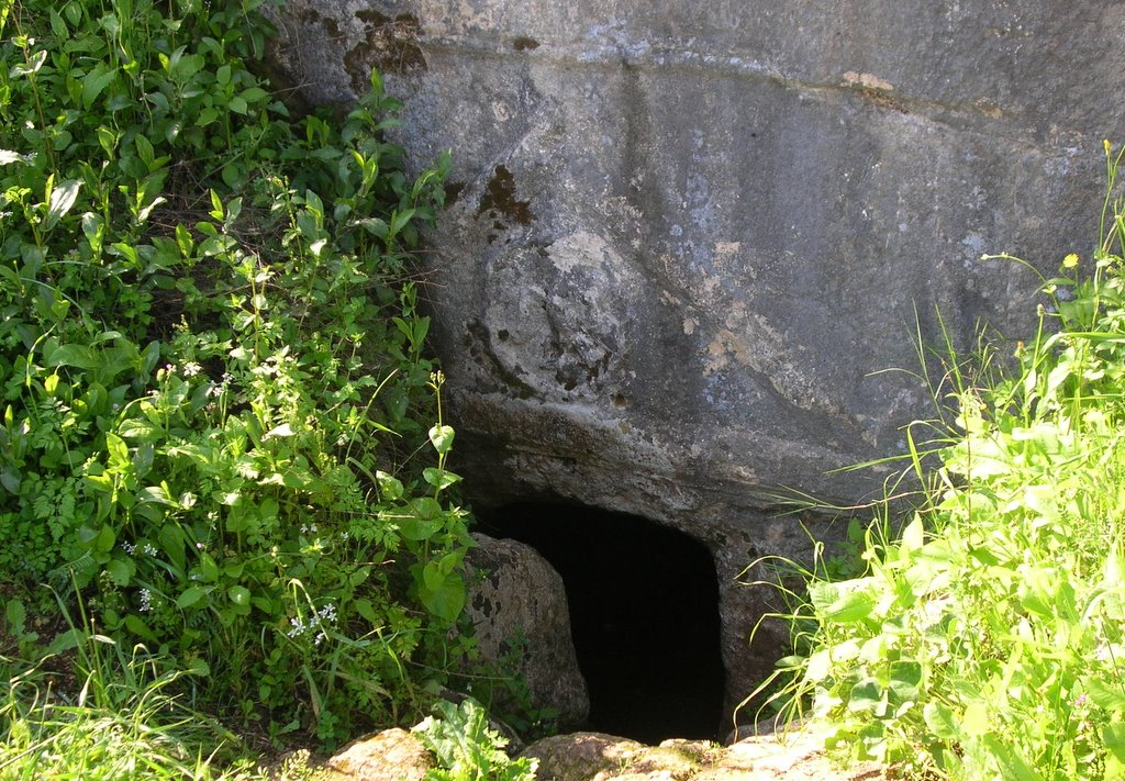 Monks Valley in Modiin